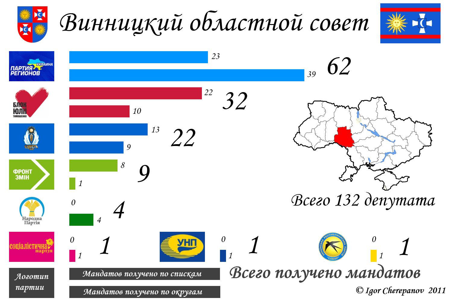 Results of Vinnytsia Oblast local election 2010